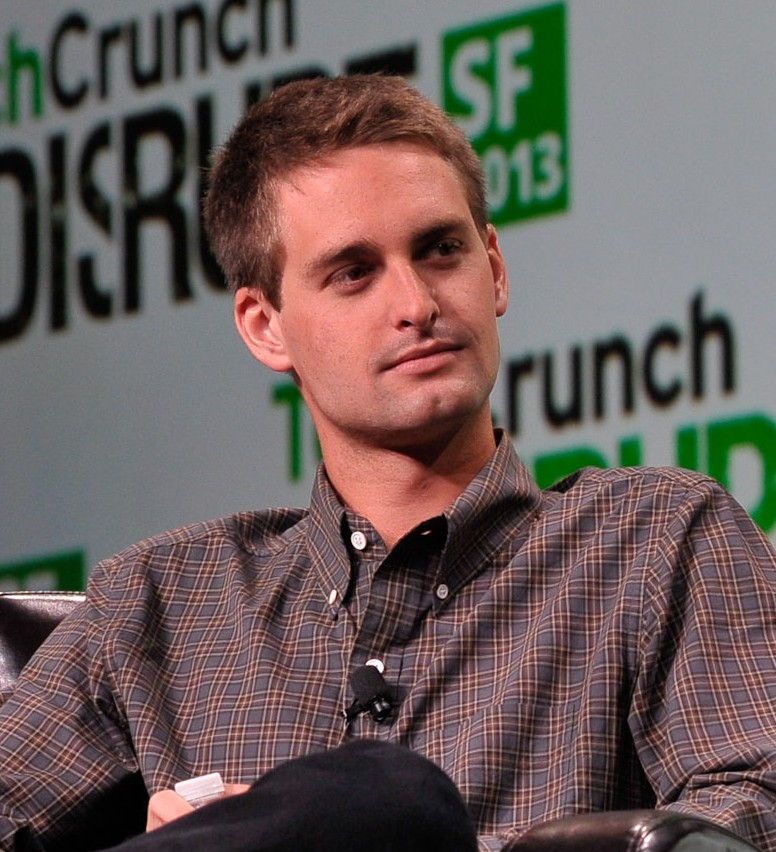 Evan Spiegel